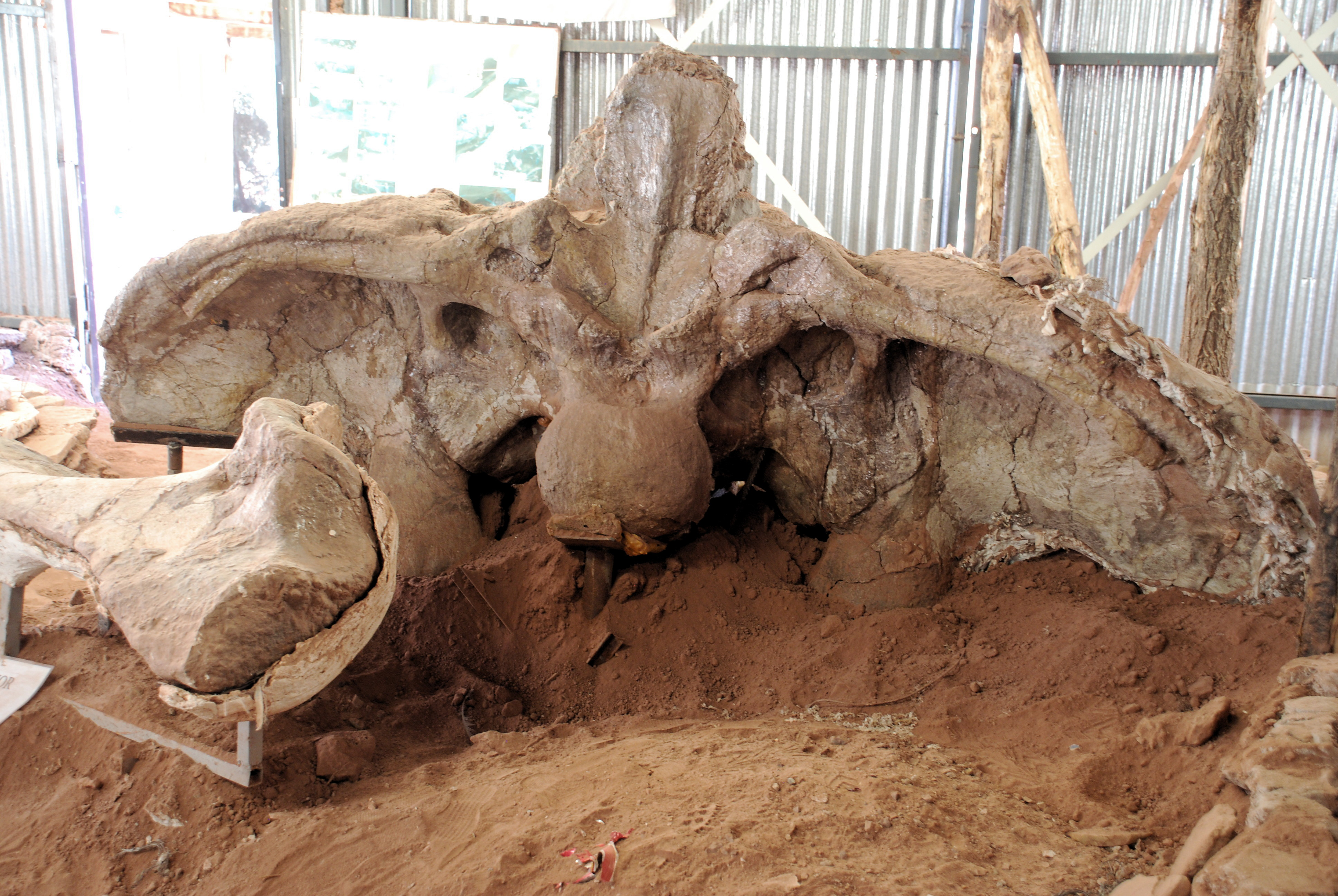 Vertebra of Futalognkosaurus in the laboratory of the Centro Paleontológico Lago Barreales (CEPALB), in the region Neuquén, Argentina